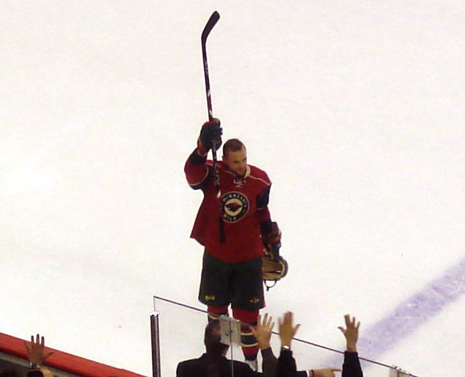 The Minnesota Wild's Marián Gáborík waving to the crowd after his famous December 20, 2007 game against the New York Rangers where he scored five goals and had one assist, making him the first players since to score five or more goals since Sergei Fedorov on December 26, 1996. The Wild won, 6–3. ; Cropped version edited by user:Svetovid